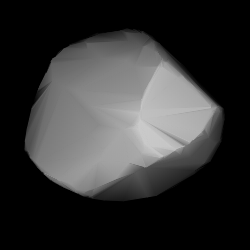 3D convex shape model of 1444 Pannonia, computed using light curve inversion techniques. J. Hanuš, J. Ďurech, M. Brož, B. D. Warner (June 2011). "A study of asteroid pole-latitude distribution based on an extended set of shape models derived by the lightcurve inversion method". Astronomy and Astrophysics 530: A134. ISSN 0004-6361. arXiv